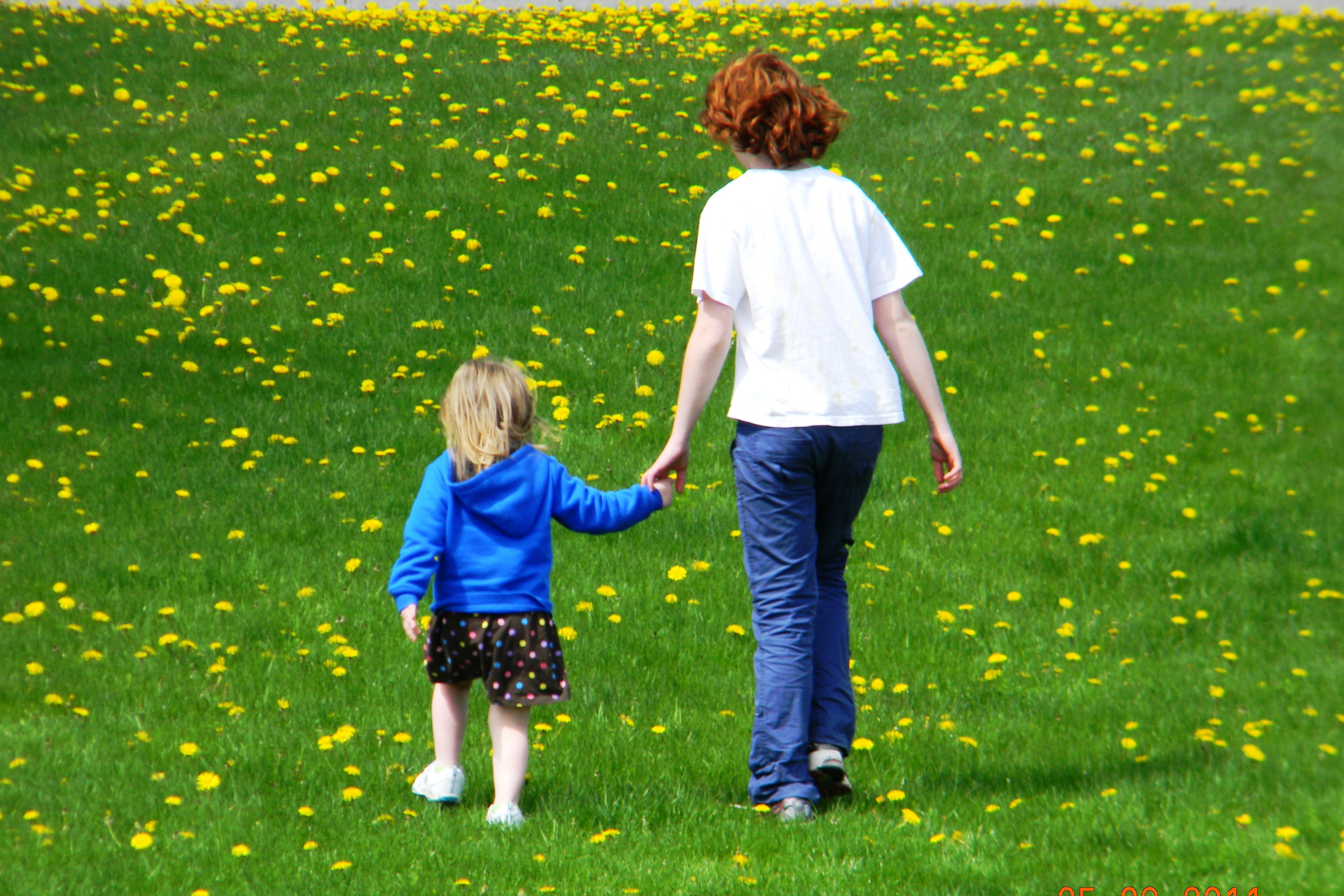 Two sisters walking through a lawn sprinkled with dandelions.